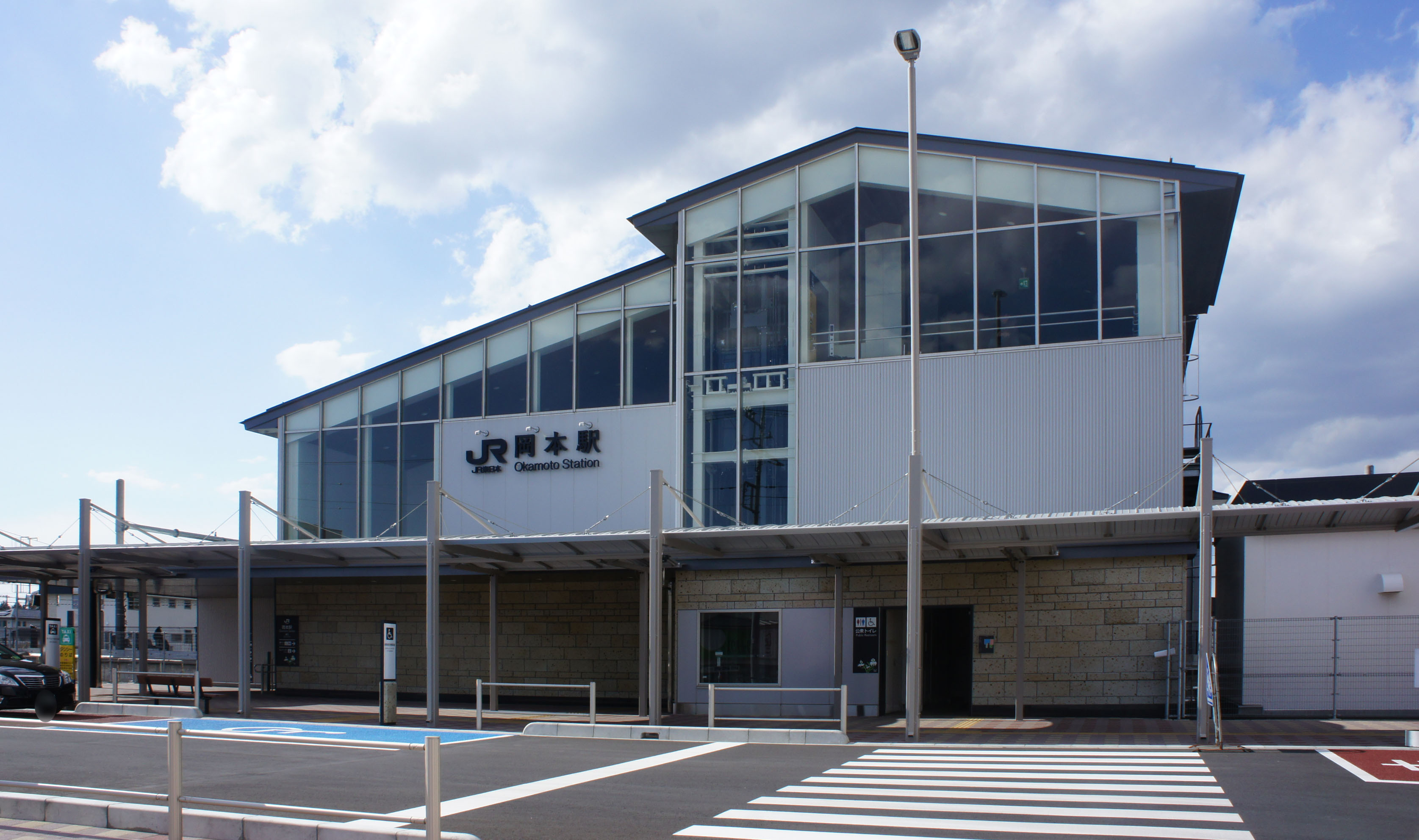 East Exit of JR Tohoku-Main-Line (Utsunomiya-Line) Okamoto Station Sony NEX-3